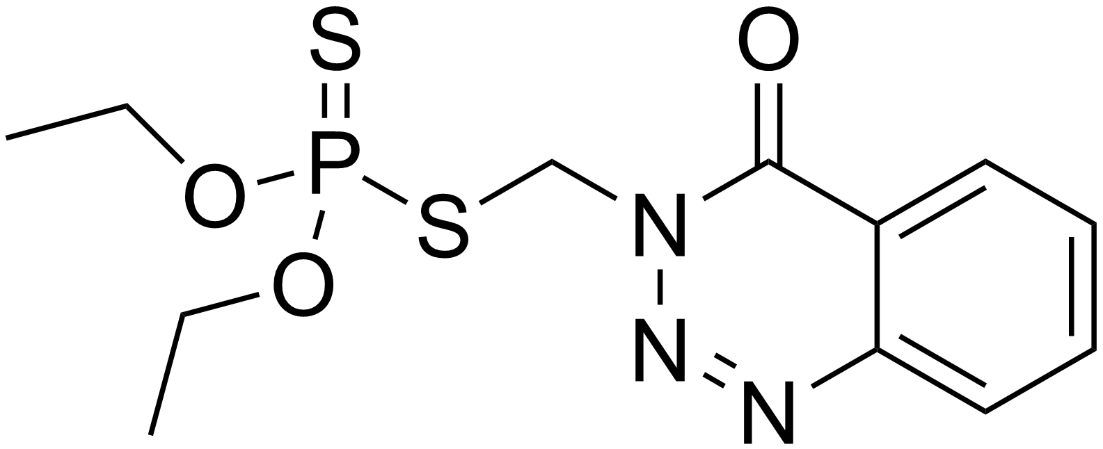 Chemical structure of Azinphos-ethyl